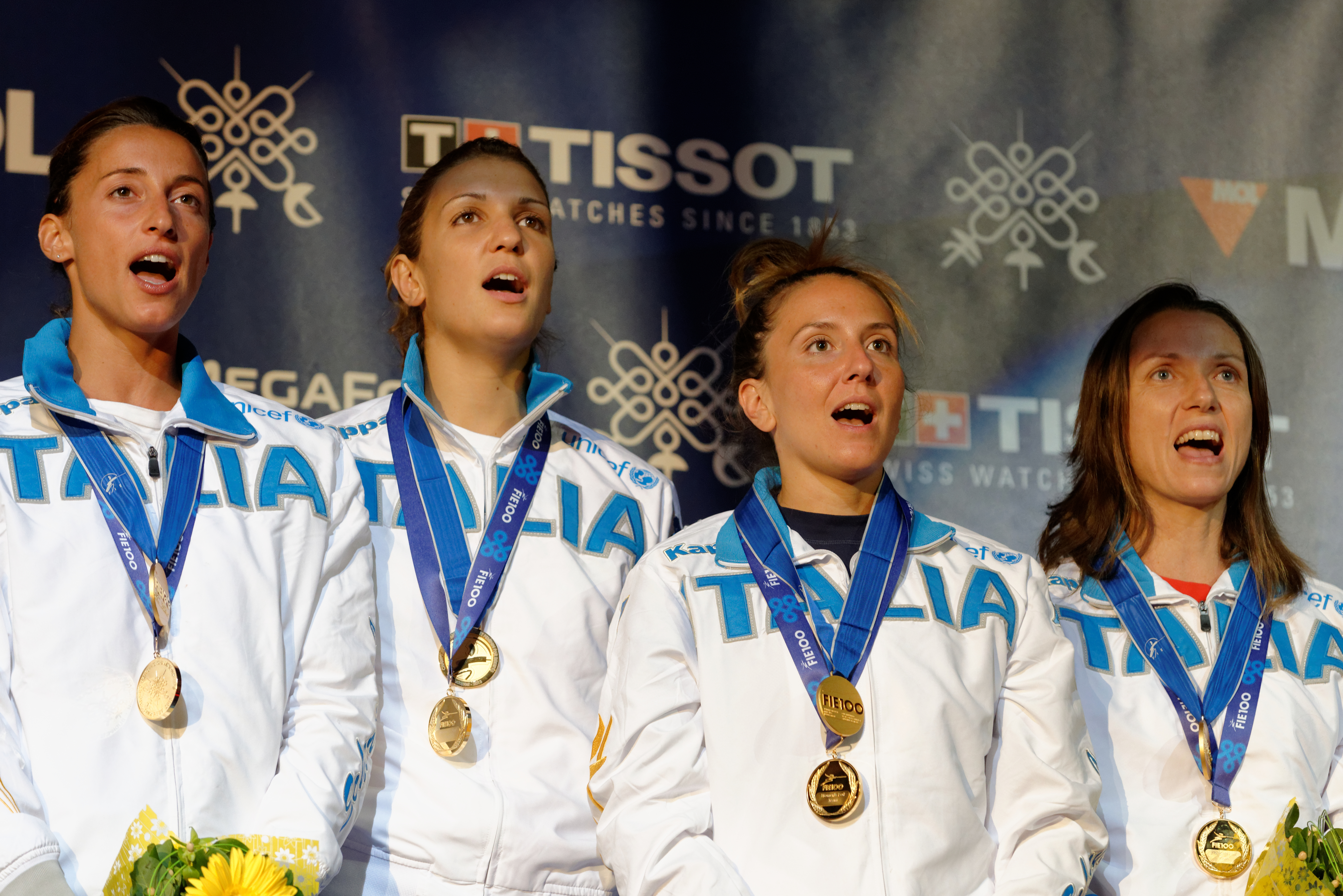 Italy women's foil team (from left to right, Elisa Di Francisca, Carolina Erba, Arianna Errigo, and Valentina Vezzali) sing the national anthem of Italy on the podium of the 2013 World Fencing Championships 2013 at Syma Hall in Budapest, 10 August 2013.